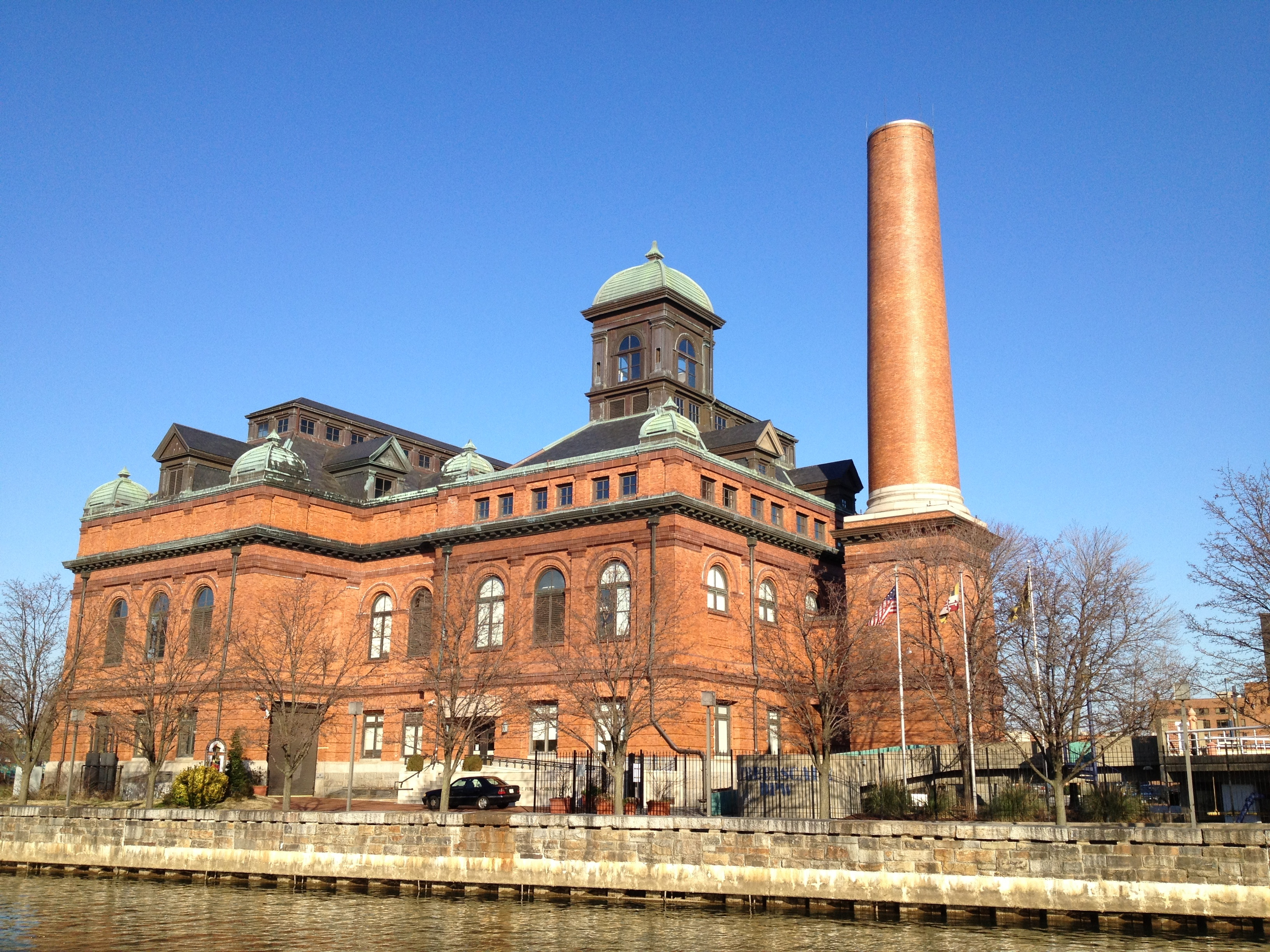 Baltimore Public Works Museum exterior. Classic Baltimore building style